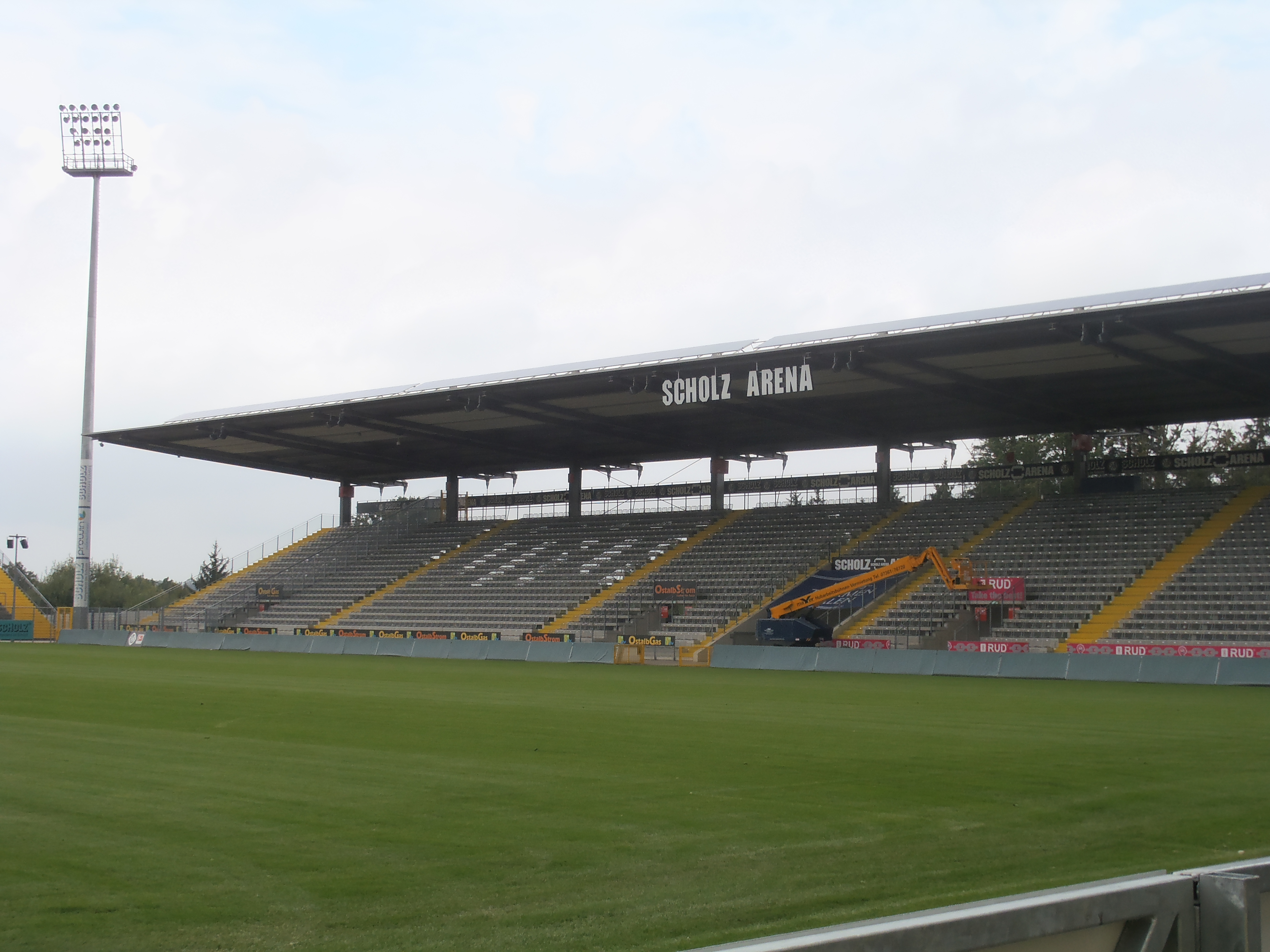 Northern stand of Scholz Arena